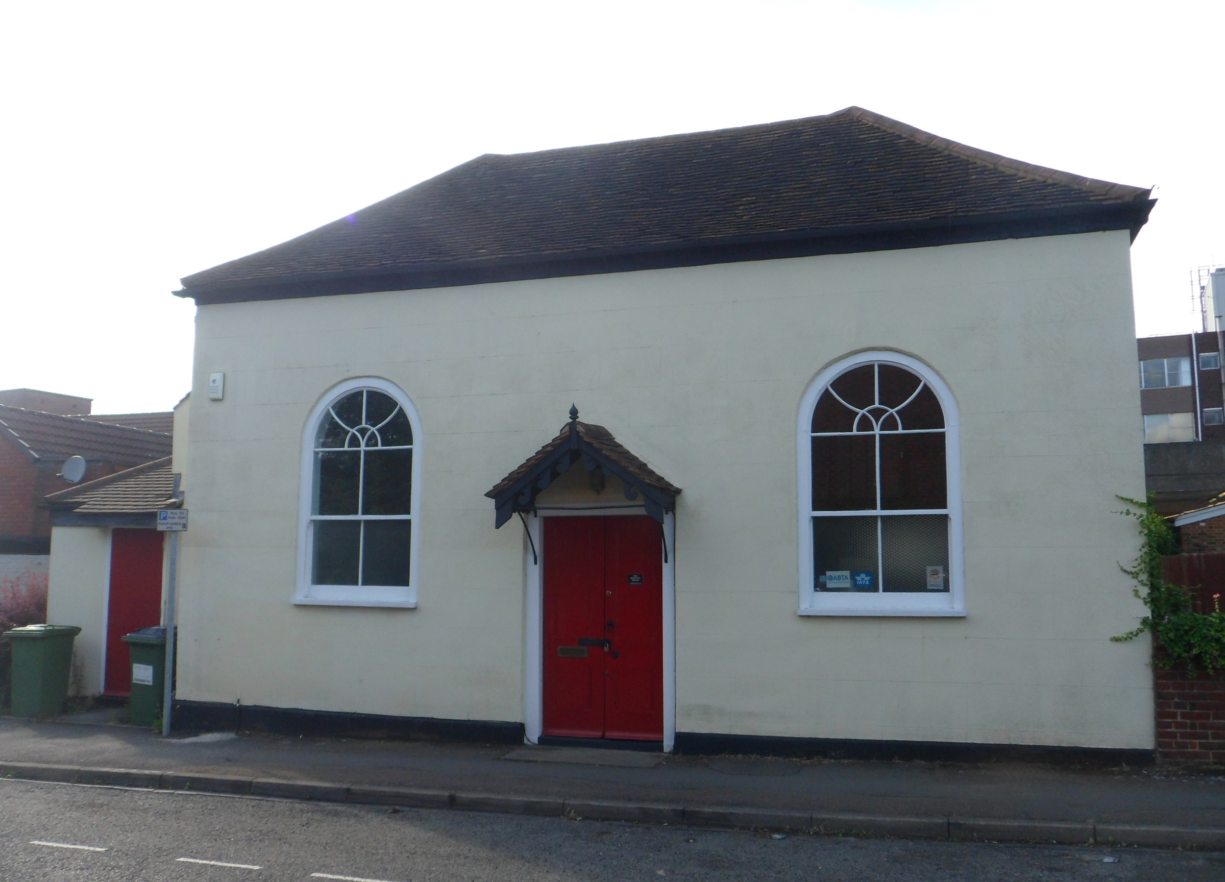 The former Bugby Chapel, Prospect Place, Epsom, Surrey, England, seen from the southeast.Built in the 18th century for William Bugby, an Independent Calvinist preacher who died in 1772. The chapel was later Unitarian, then Strict Baptist (Salem Chapel), and then became Epsom and District Synagogue. In 1994 it was converted into an office.